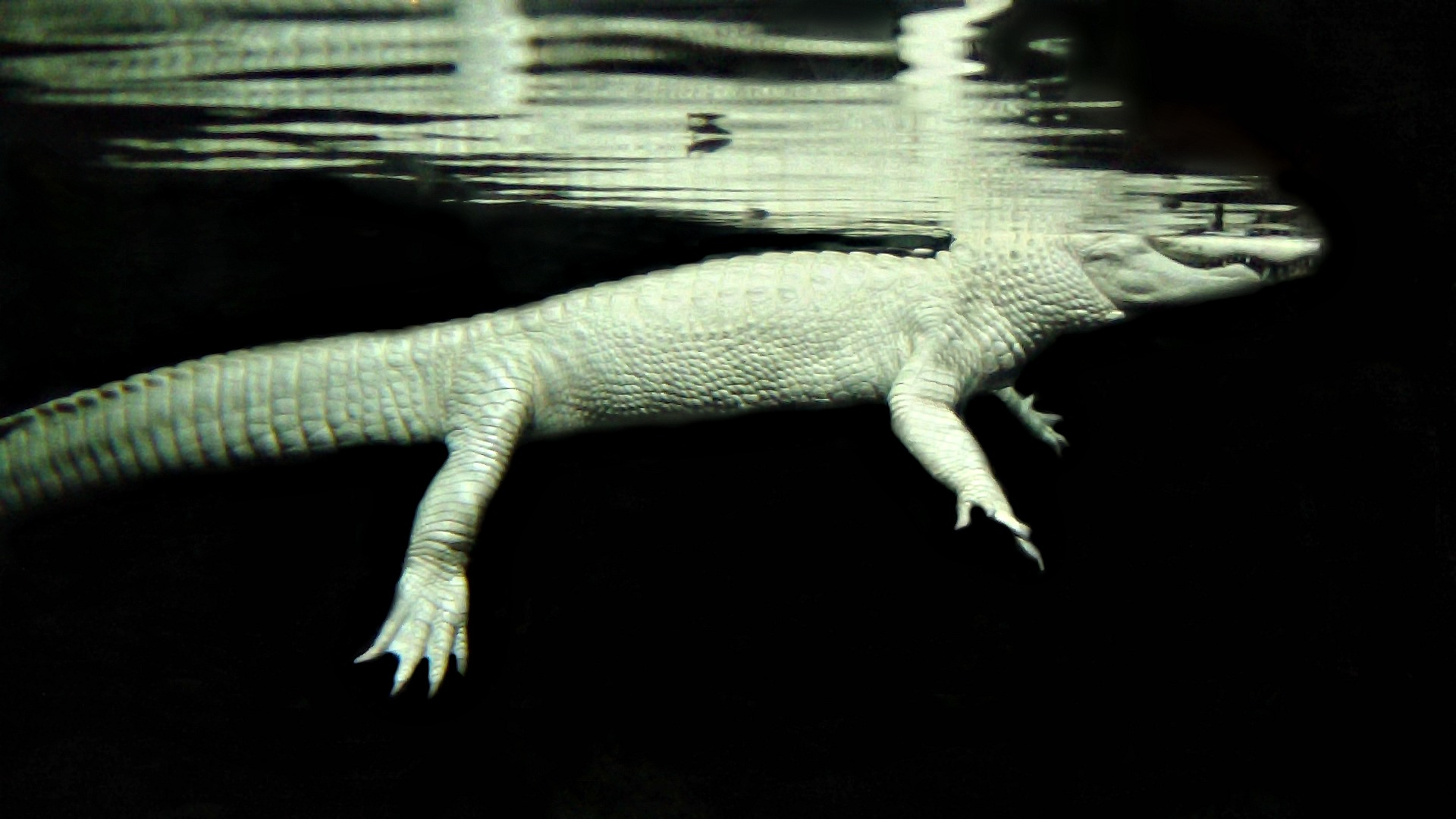 A photograph of an leucistic alligator found in the Georgia Aquarium.